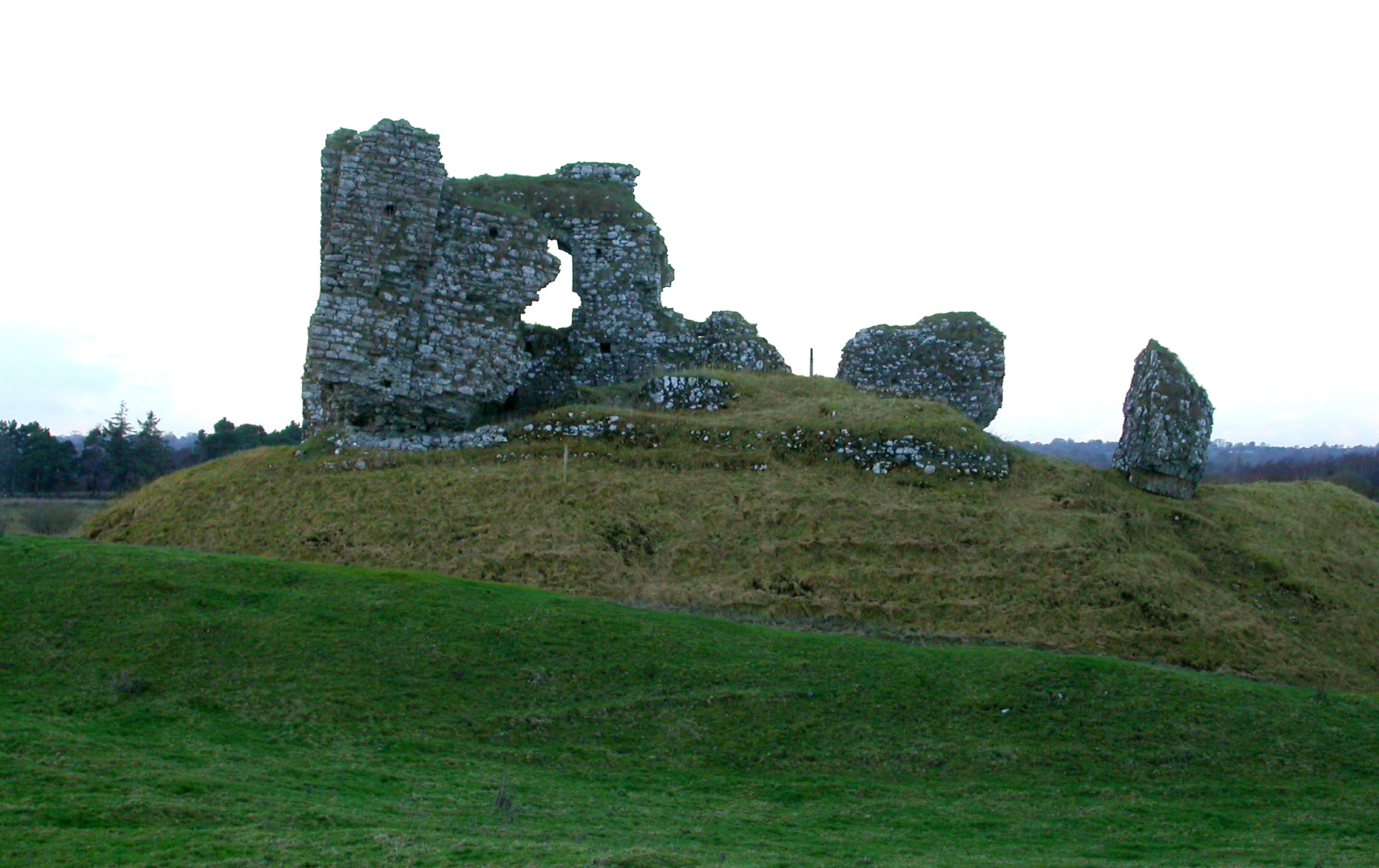 Iarma chaisleain ar bhruach na Sionnainne i gCluain Mhic Nois, Contae Uibh Fhaili. Togtha ag Sean an Scuab sa bhlian 2003.